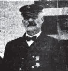 Machinists mate Charles C. Roberts (Newton, MA), after being presented the Medal of Honor by President Taft at the White House on 13 June 1911.